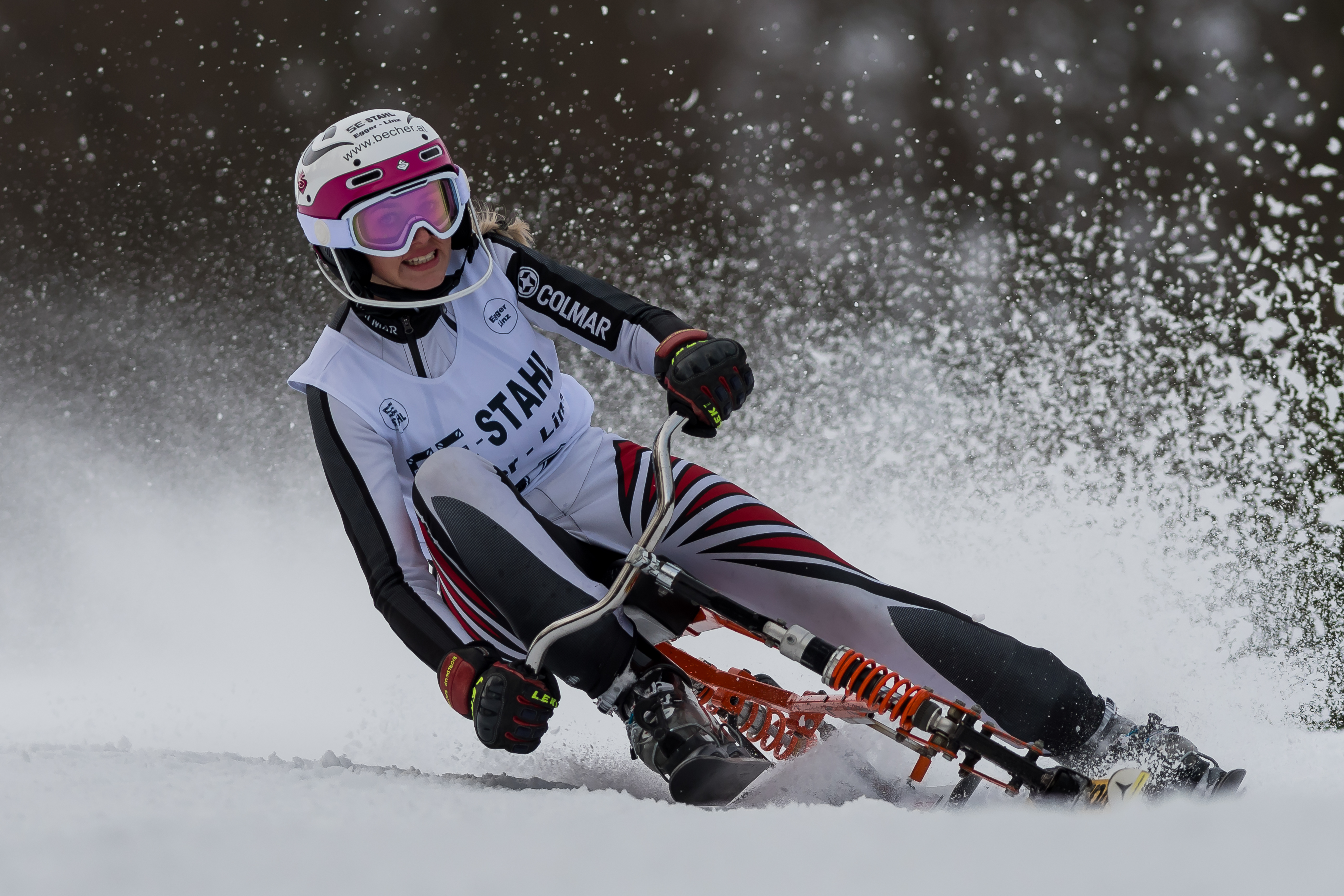 Austrian National Championship 2018 Skibobbing; Giant slalom; Sarah Gruber from club ASKÖ SBC Linz